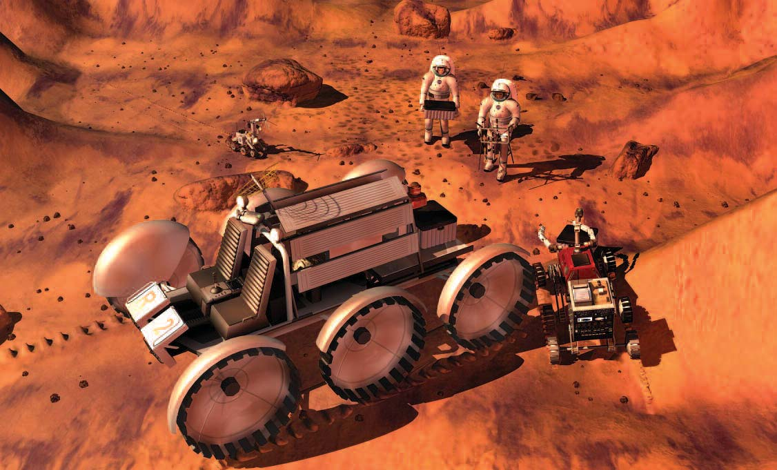 An artist’s drawing of humans exploring Mars